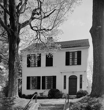 Dan Bradley House, Marcellus (Onondaga County, New York) cropped This file comes from the Historic American Buildings Survey (HABS), Historic American Engineering Record (HAER) or Historic American Landscapes Survey (HALS). These are programs of the National Park Service established for the purpose of documenting historic places. Records consist of measured drawings, archival photographs, and written reports. When reusing please credit: Library of Congress, Prints & Photographs Division, NY,34-MARC,2-1 This tag does not indicate the copyright status of the attached work. A normal copyright tag is still required. See Commons:Licensing for more information. English | +/− This work is in the public domain in the United States because it is a work prepared by an officer or employee of the United States Government as part of that person’s official duties under the terms of Title 17, Chapter 1, Section 105 of the US Code. See Copyright. Note: This only applies to original works of the Federal Government and not to the work of any individual U.S. state, territory, commonwealth, county, municipality, or any other subdivision. This template also does not apply to postage stamp designs published by the United States Postal Service since 1978. (See 206.02(b) of Compendium II: Copyright Office Practices). It also does not apply to certain US coins; see The US Mint Terms of Use. This file has been identified as being free of known restrictions under copyright law, including all related and neighboring rights. Object location 42° 58′ 35.0″ N, 76° 20′ 24.0″ W This and other images at their locations on: Google Maps - Google Earth - OpenStreetMap - Proximityrama(Info)